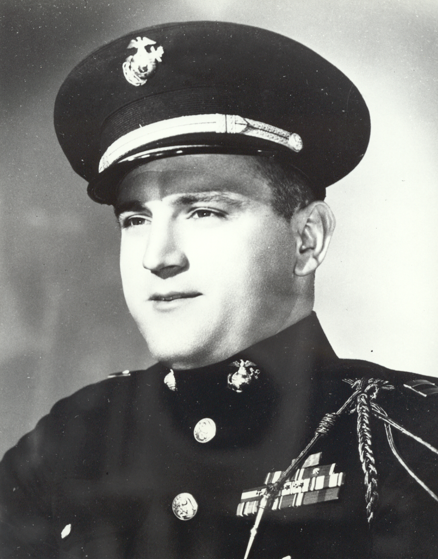 Carlton Rouh, Medal of Honor recipient for actions during the WWII Battle of Peleliu. Photo from official Marine Corps biography at